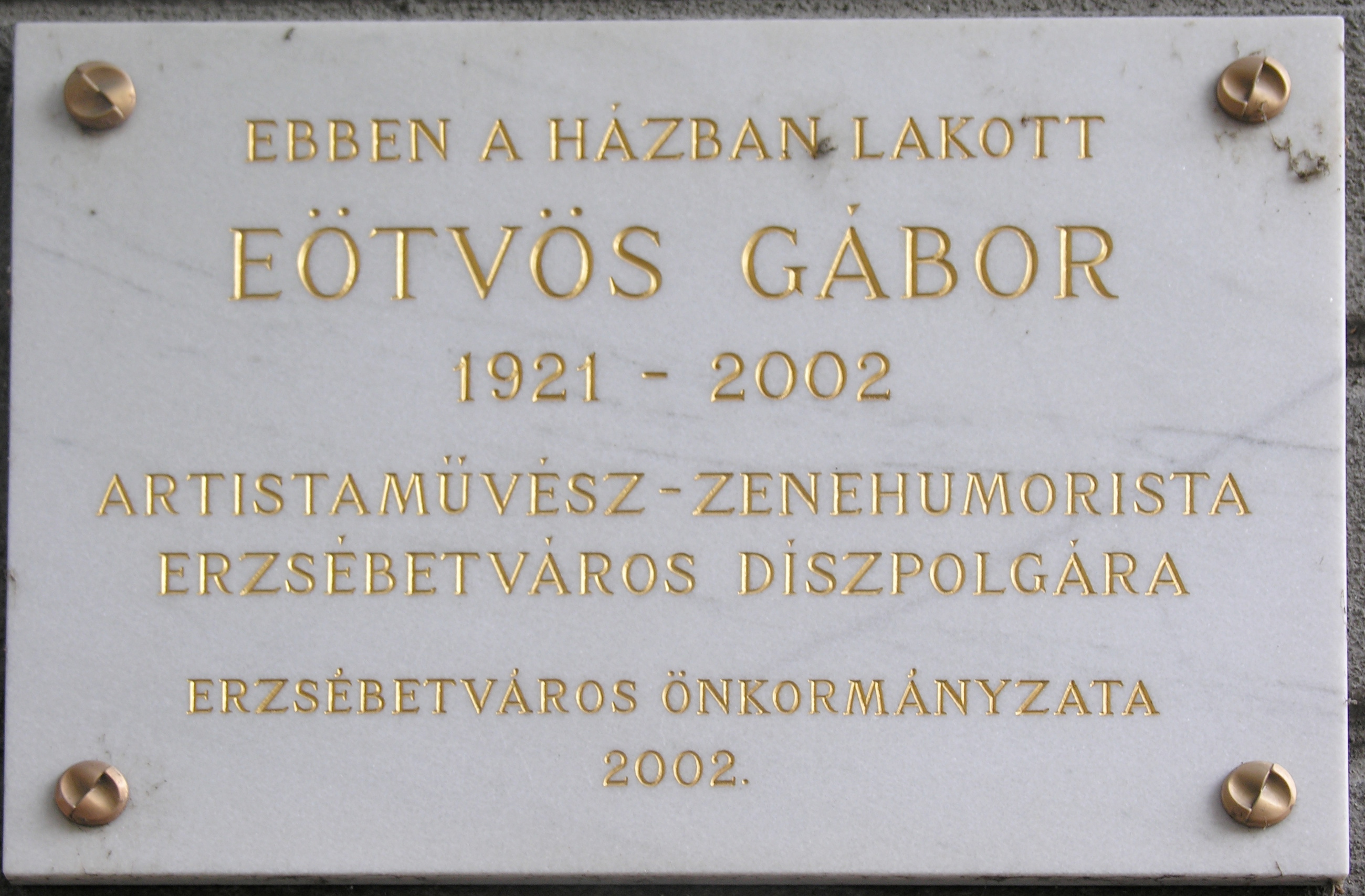 Commemorative plaque of Gábor Eötvös in Budapest District VII, Damjanich Street No 27